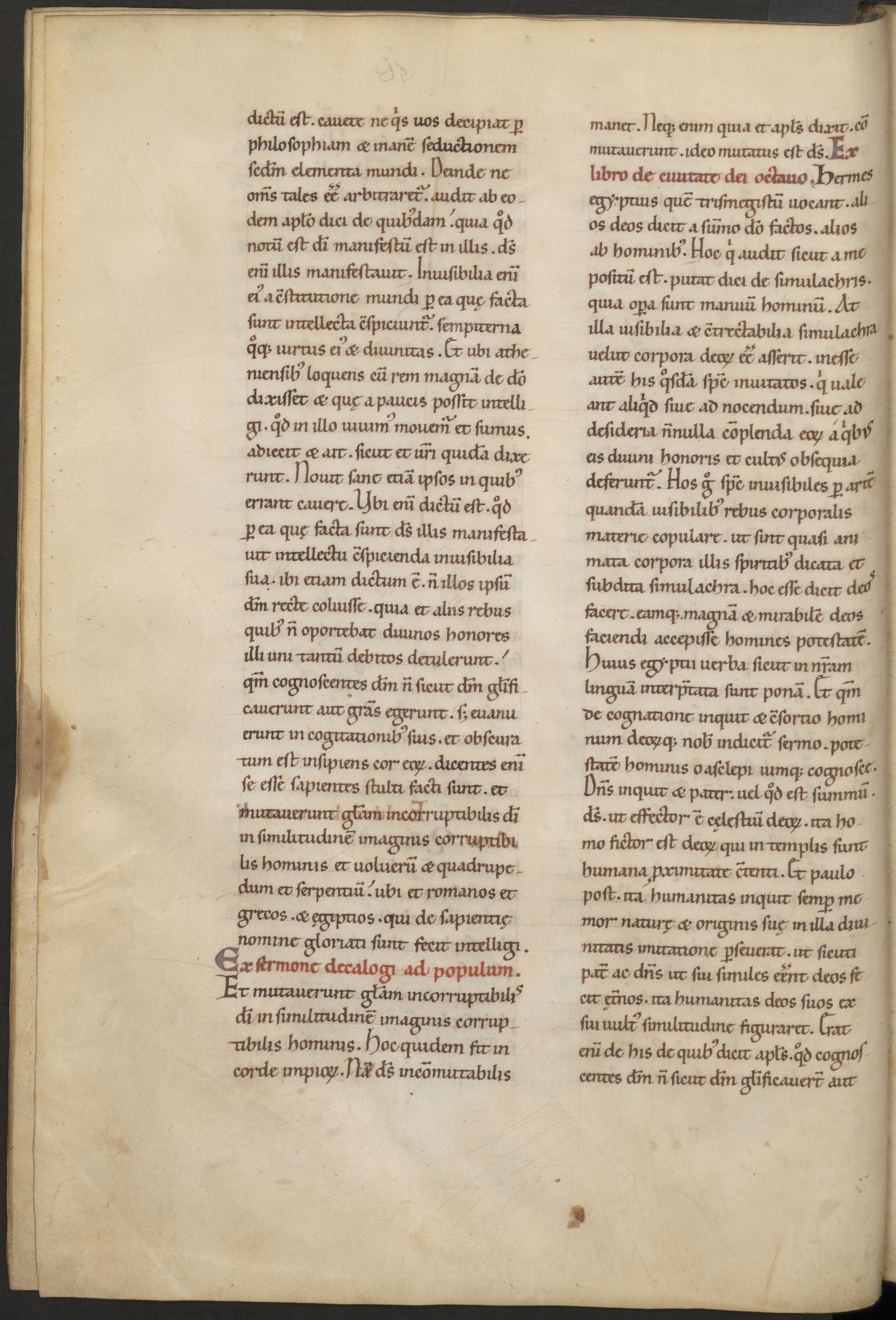 Ms.202, fol. 9v.